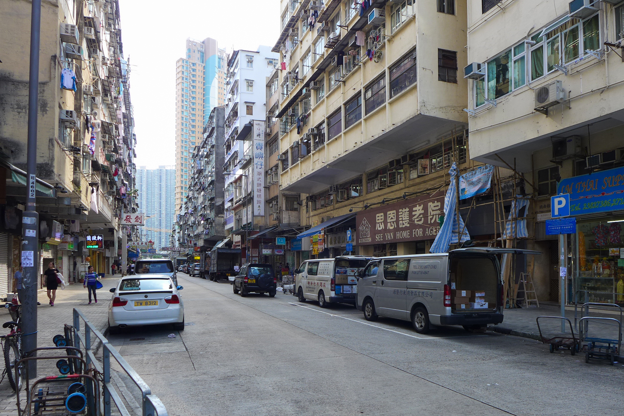 South Wall Road